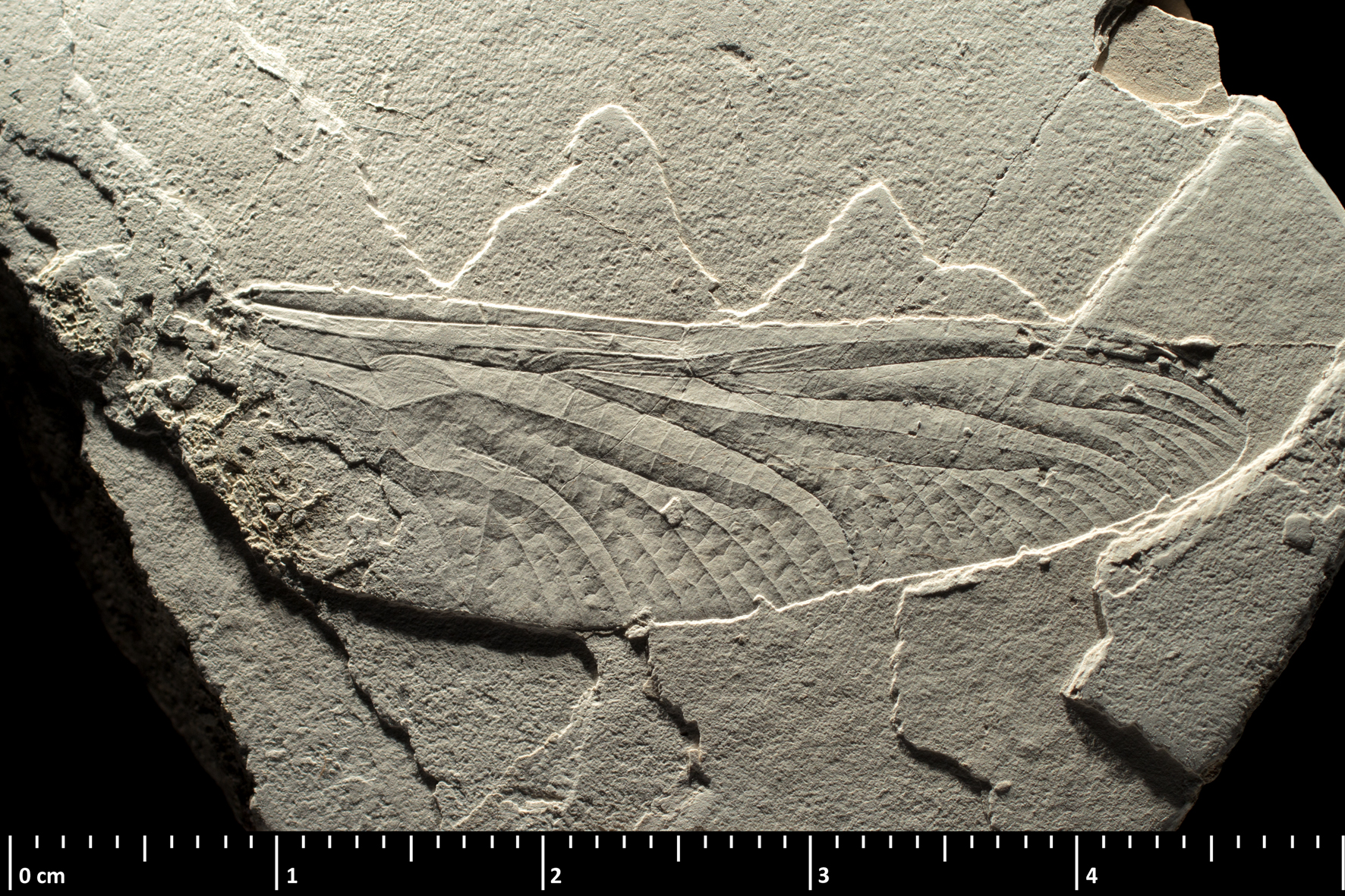 The Jeanlegrandia oligocenica holotype specimen with indirect lighting. Chattien, Oligocene; Les Figons, route d'Eguille, Aix-en-Provence, Bouches-du-Rhône, Provence-Alpes-Côte d'Azur, France Muséum national d'Histoire naturelle specimen MNHN.F.R63849